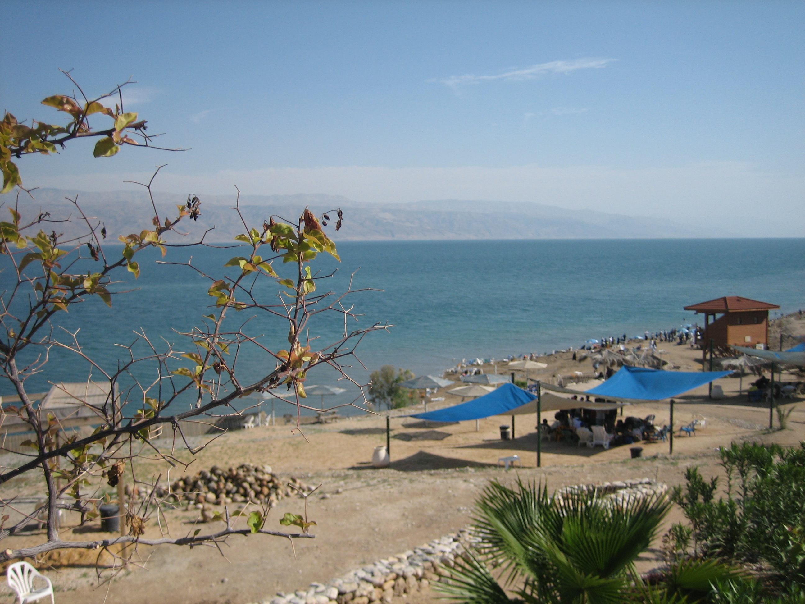 Dead Sea "Qalya" beach, Israel Plaža Kalija na Mrtvom moru, Izrael